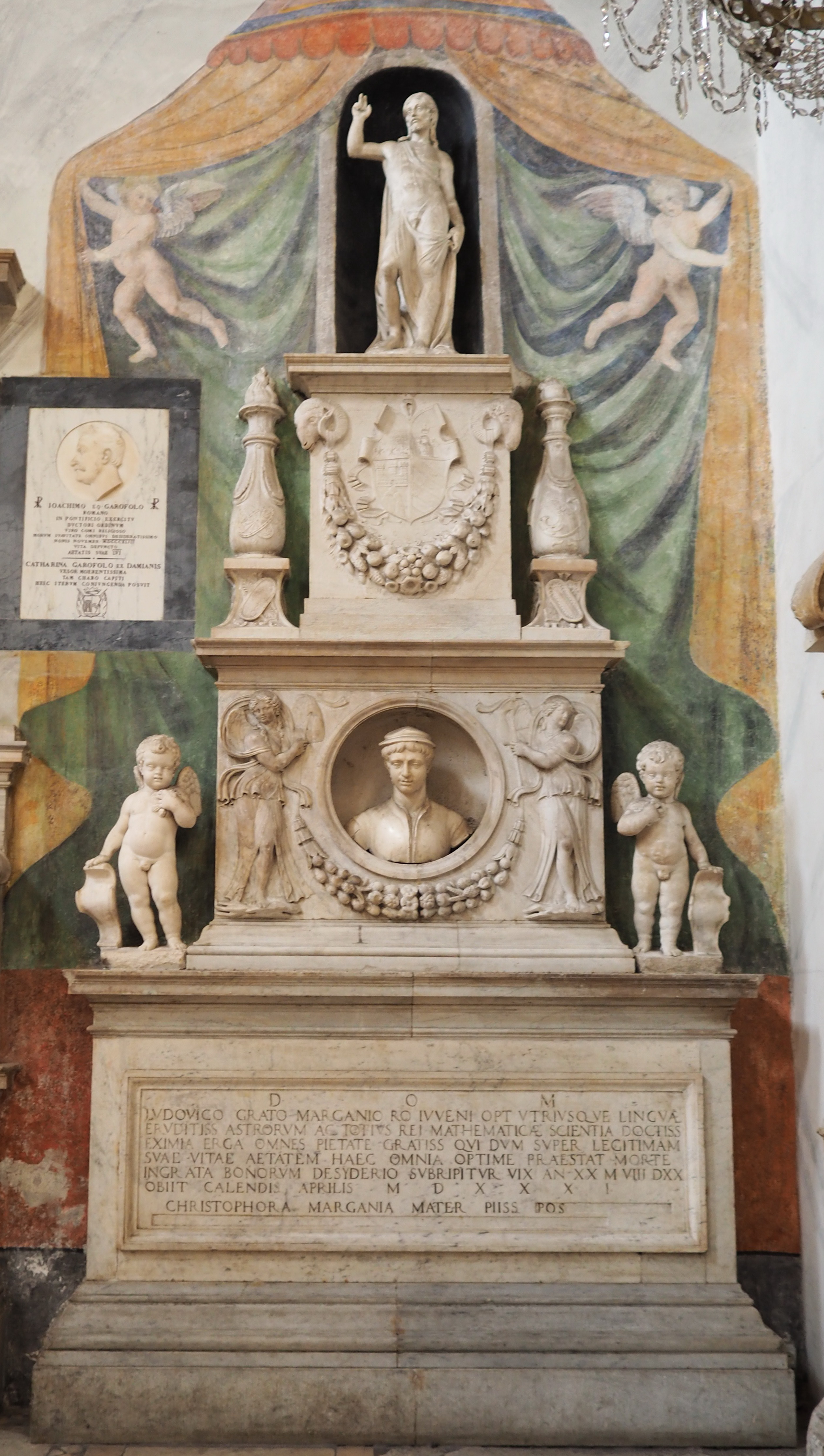 Santa Maria in Aracoeli (Rome); Monument for Lodovico Margani